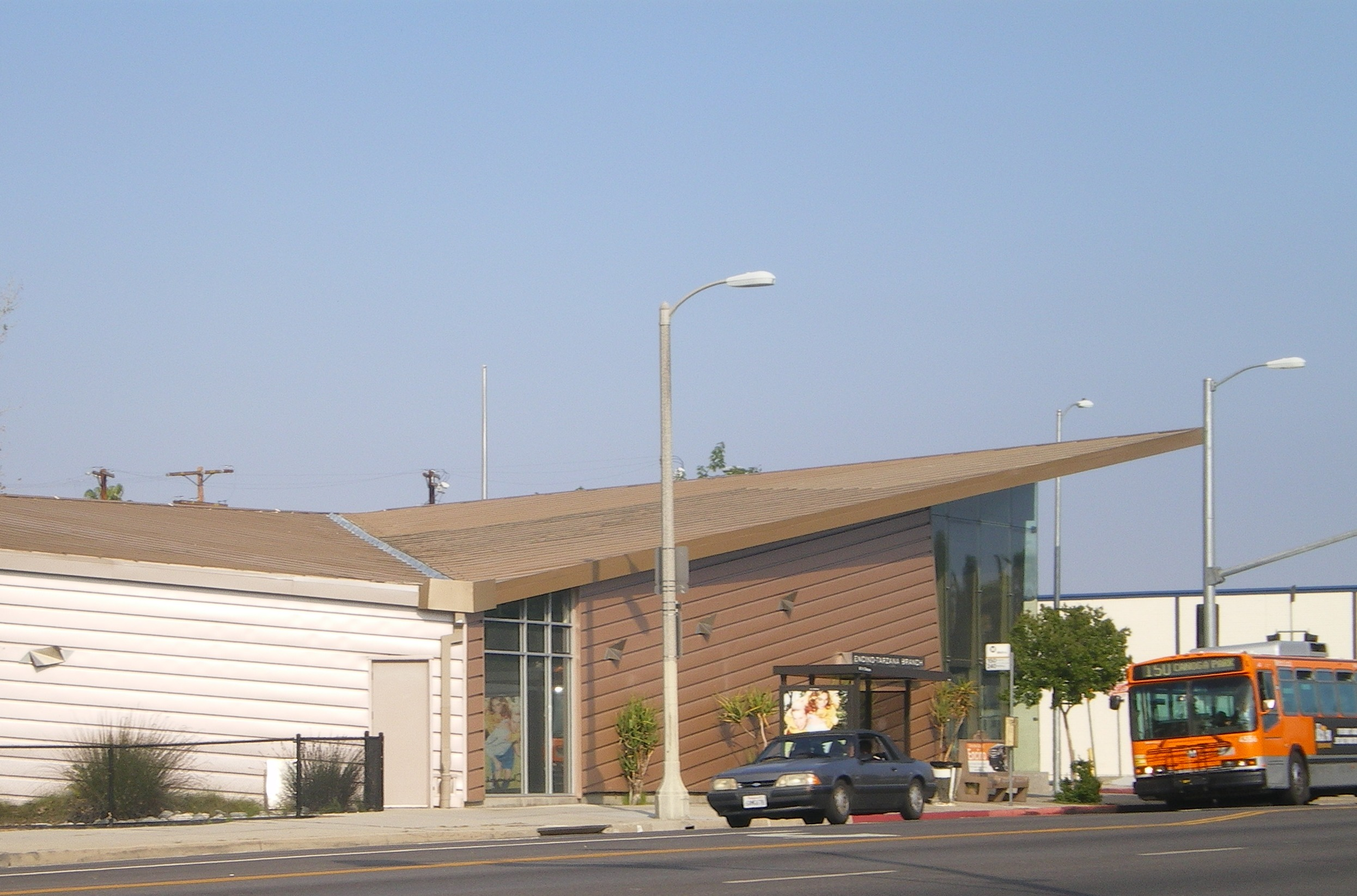 Encino-Tarzana Branch Library — Ventura Boulevard at Nestle Avenue. Los Angeles Public Library Branch in Tarzana near Encino, San Fernando Valley—Los Angeles.